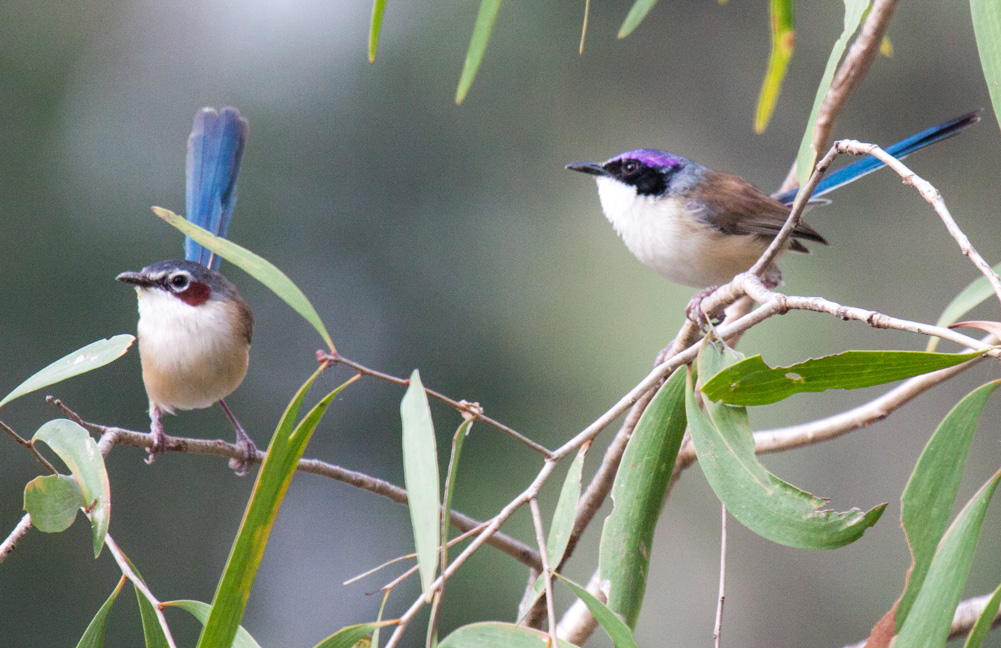 male and female purple-crowned fairy-wren (race macgillvrayi)